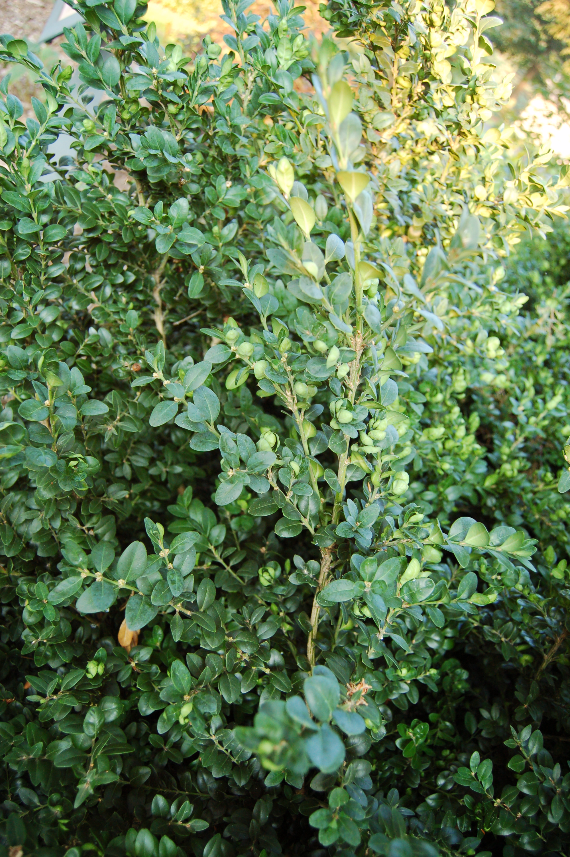 Photograph of the Common Boxwood (Buxus sempervirens).